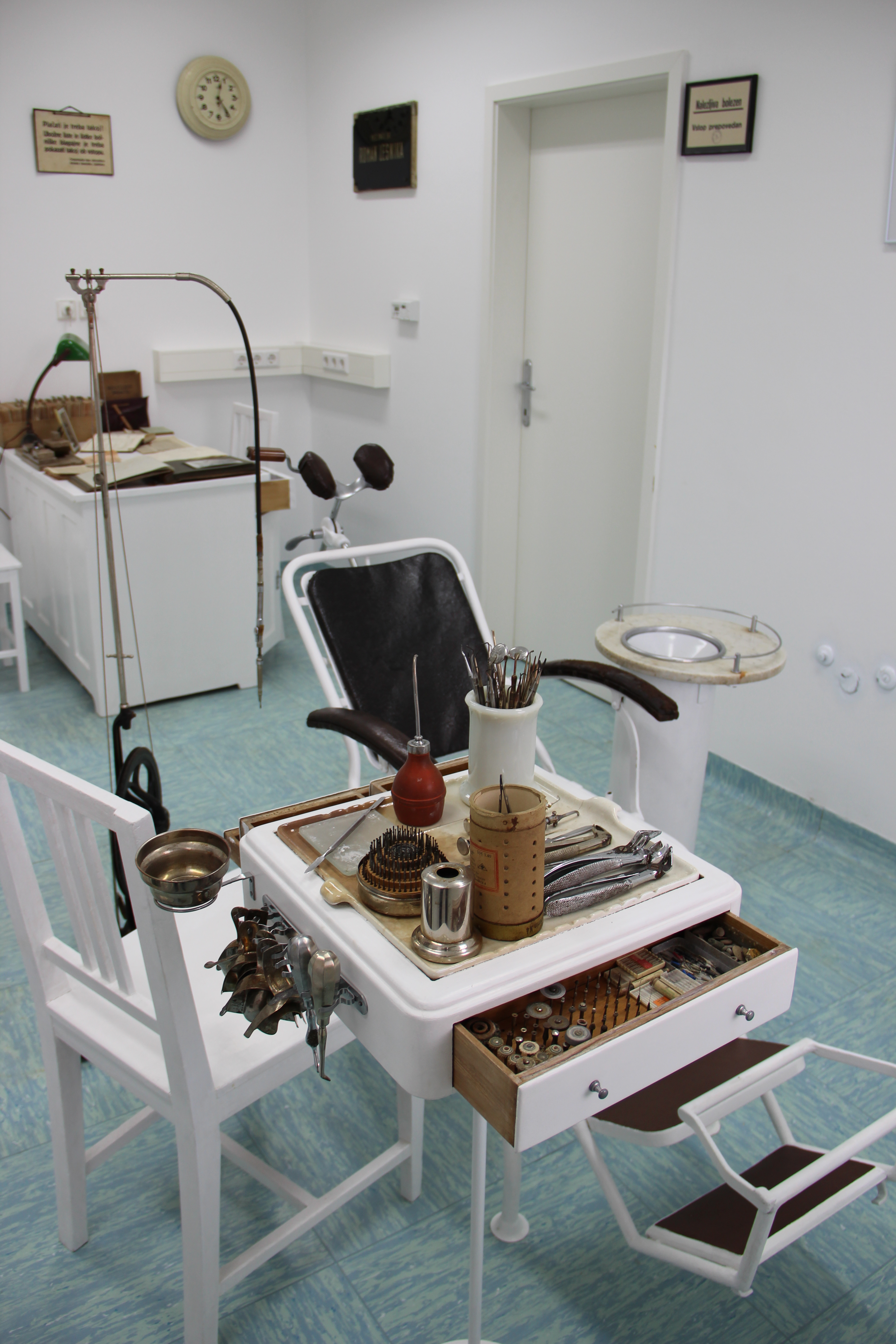 Spominska soba dr. Romana Lesnike (Občina Sveta Ana)